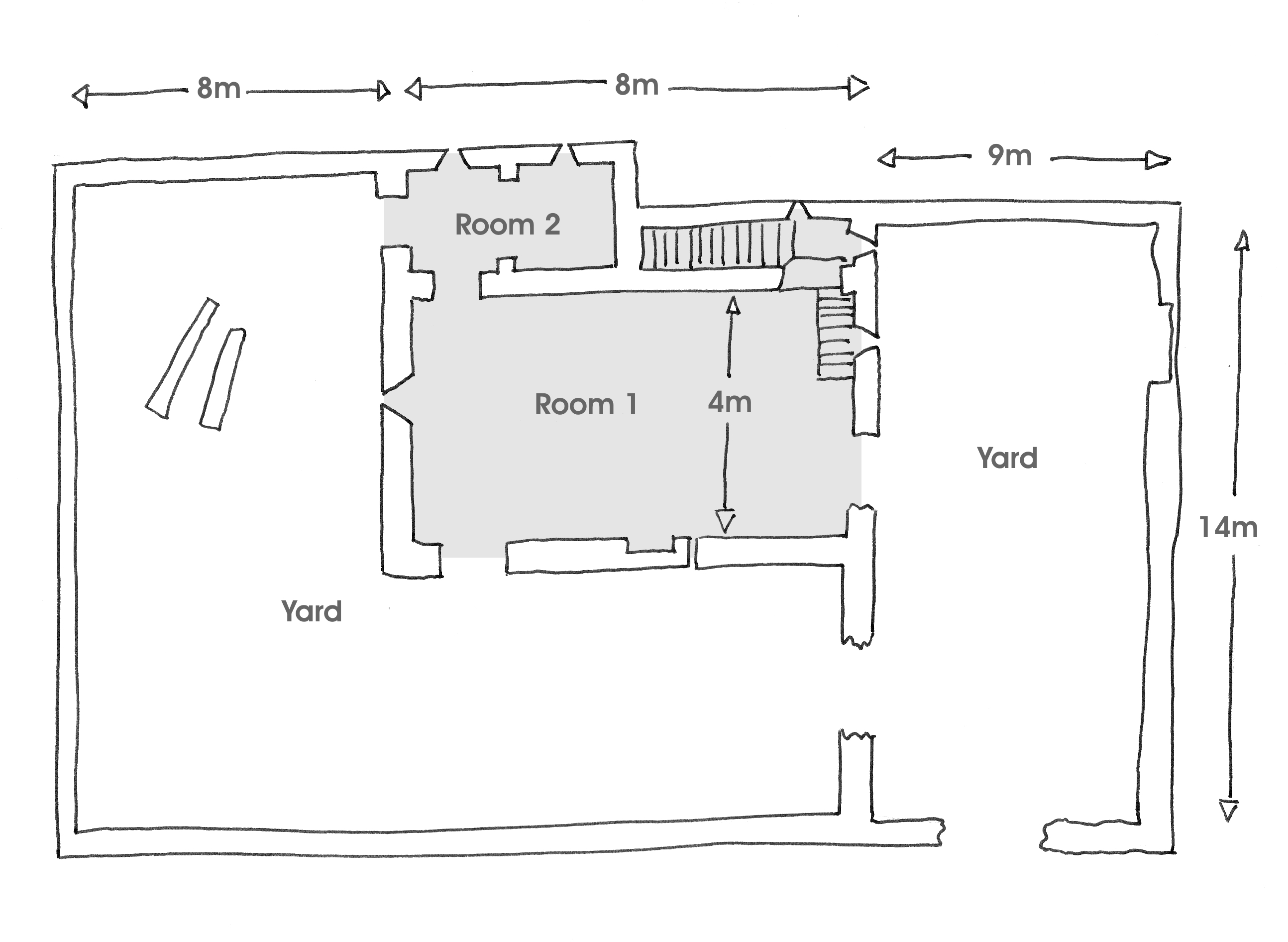 The plan of the Selcuk Hunting Lodge in Kemer/Antalya, Turkey